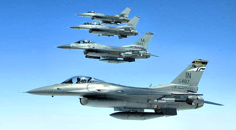 F-16s assigned to the 122nd FW and the 127th FW are captured in formation after a routine refuelling from a KC-135R Stratotanker assigned to the 126th ARW on April 3rd, 2009. [USAF photo]